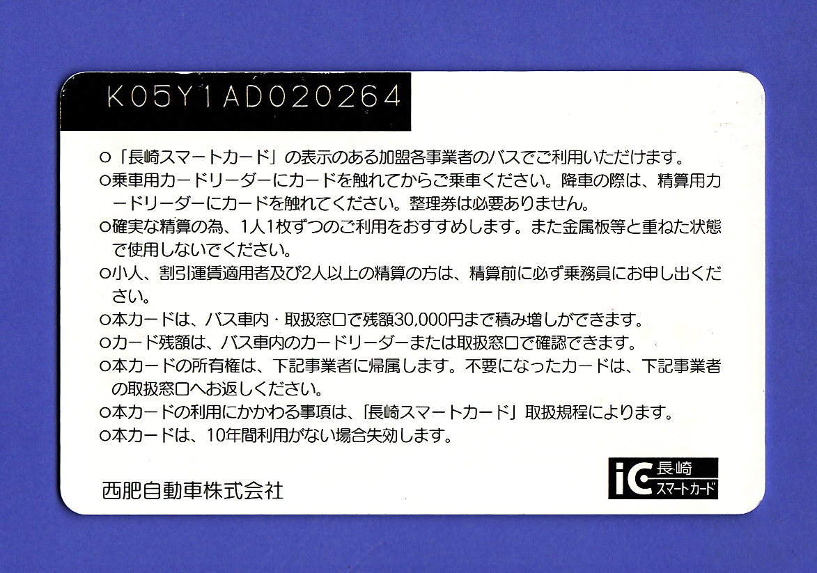 Photograph of Nagasaki smart card.